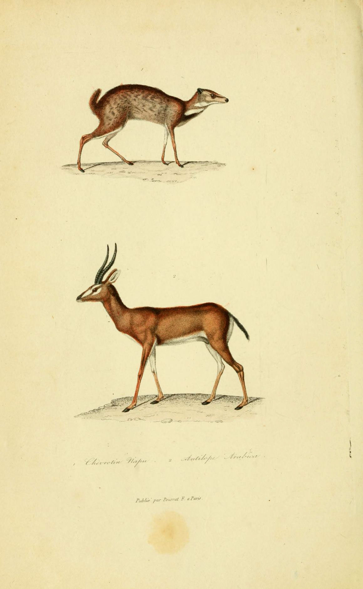 //„,,/- /y- /,//■'■ ' ' // /' Pubtie' /■."■ Vowral F aFarù